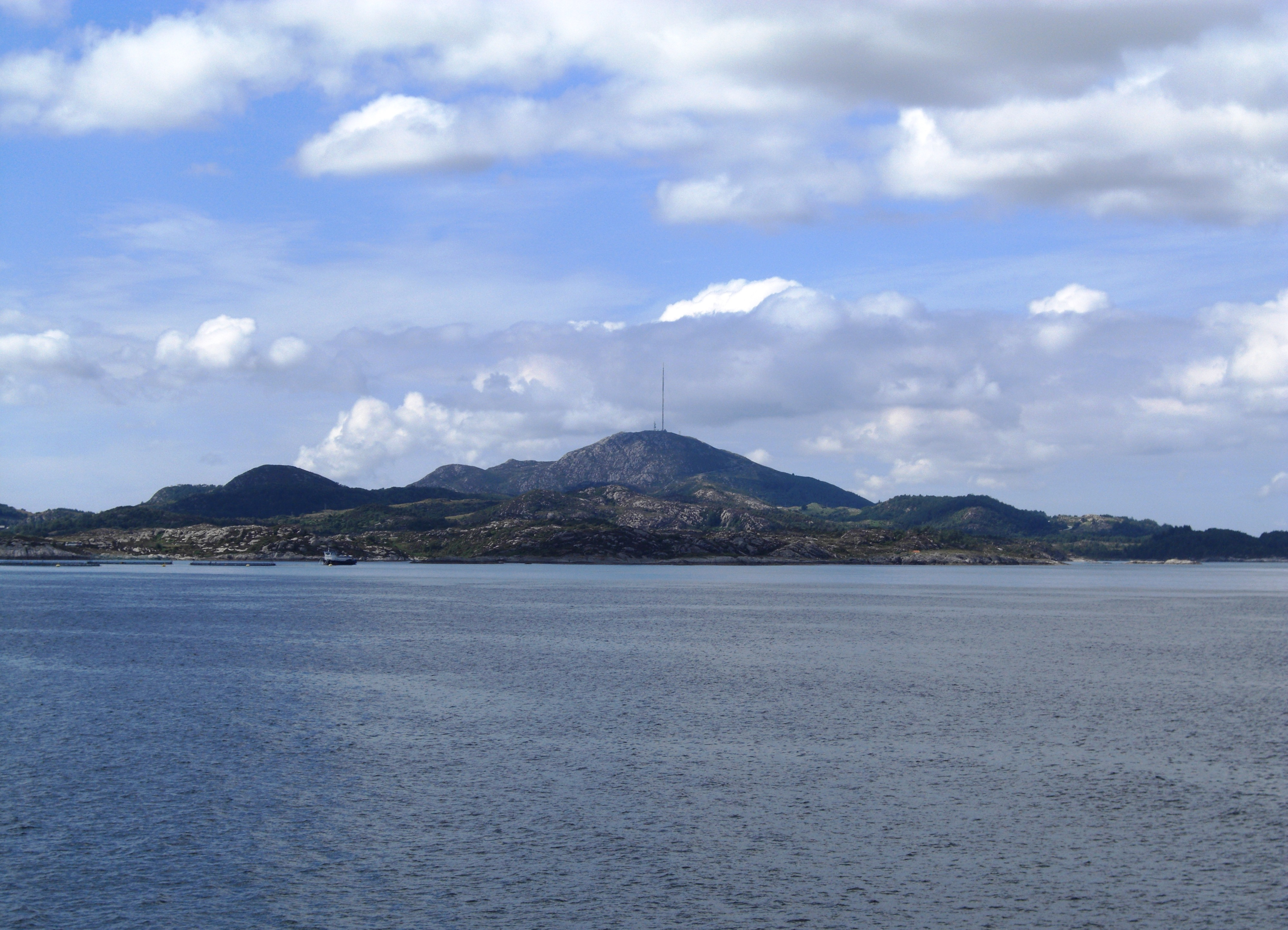 Bokn, Rogaland